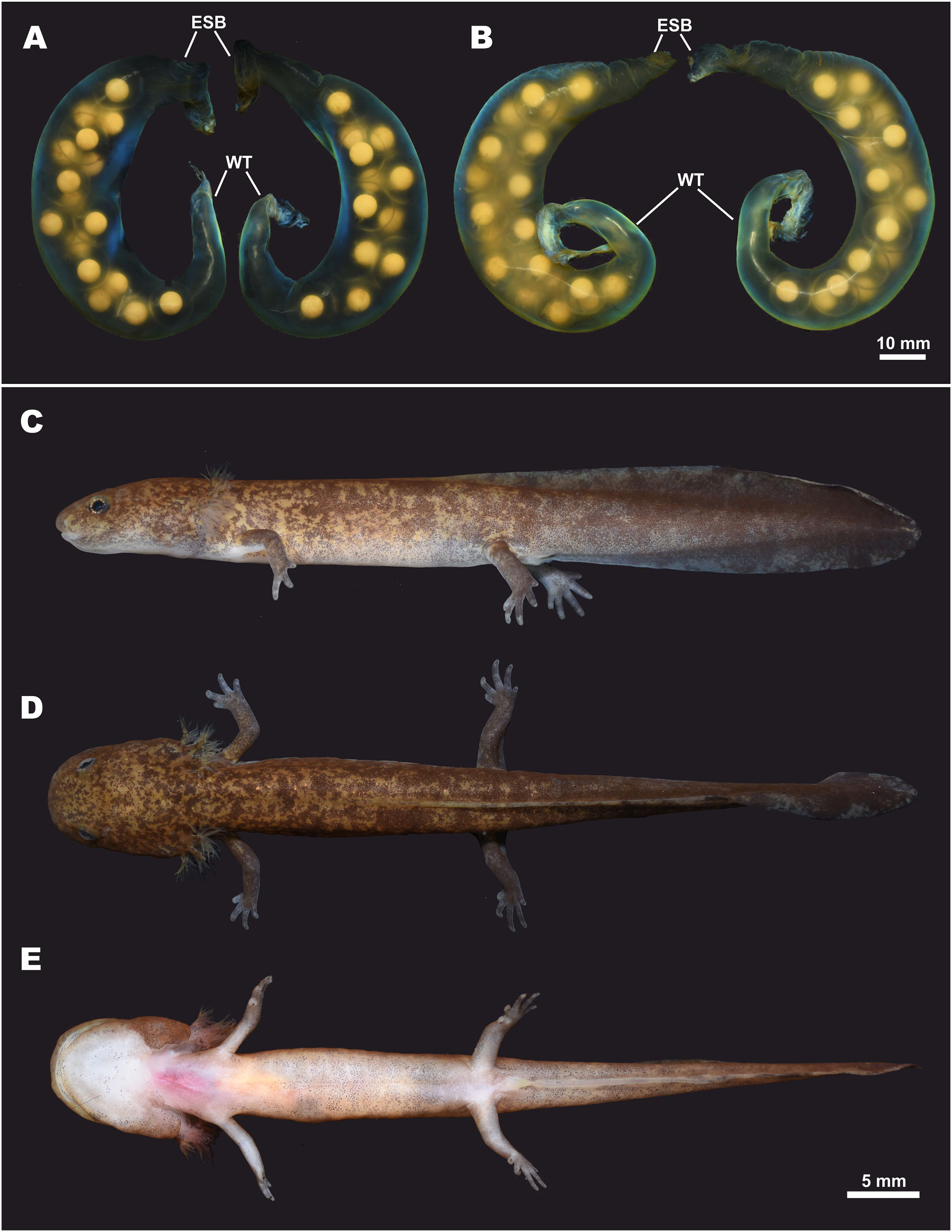 (A) Egg sac pair ZMMU A-5879–5880; (B) egg sac pair ZMMU A-5881–5882; lateral (C), dorsal (D), and ventral (E) views of a larva at stage 57; ZMMU A-5877. Study sites: ESB, egg sac base; WT, whiptail-like structure. Scale bar indicates 10 mm. Photos by H. Okamiya.